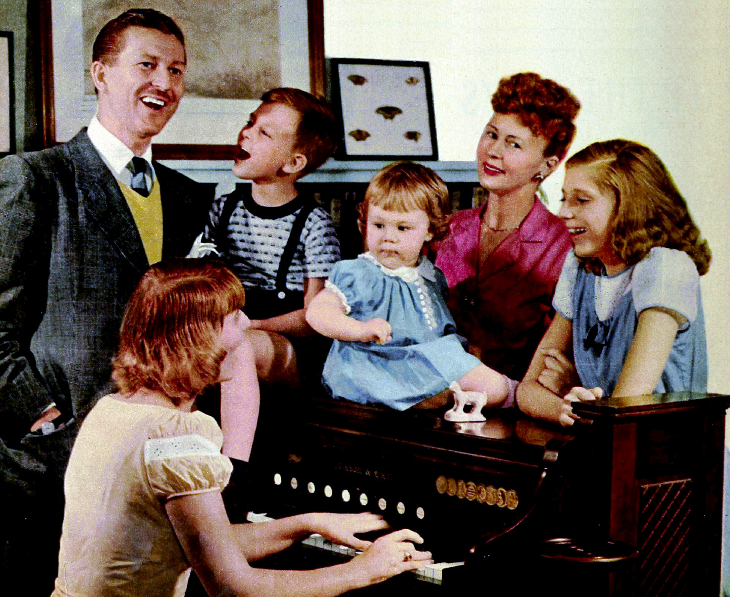 Photo of Jack Berch and his family from the January 1949 issue of Radio and Television Mirror. A search for renewal was done in periodicals for the years 1976 and 1977. There were no listings for this title. There's no evidence of renewal for this magazine.